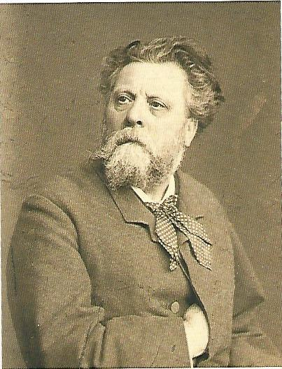 Alphonse Chigot (1824-1917). French painter well known for his military paintings' Photograph dated 7 Oct 1917